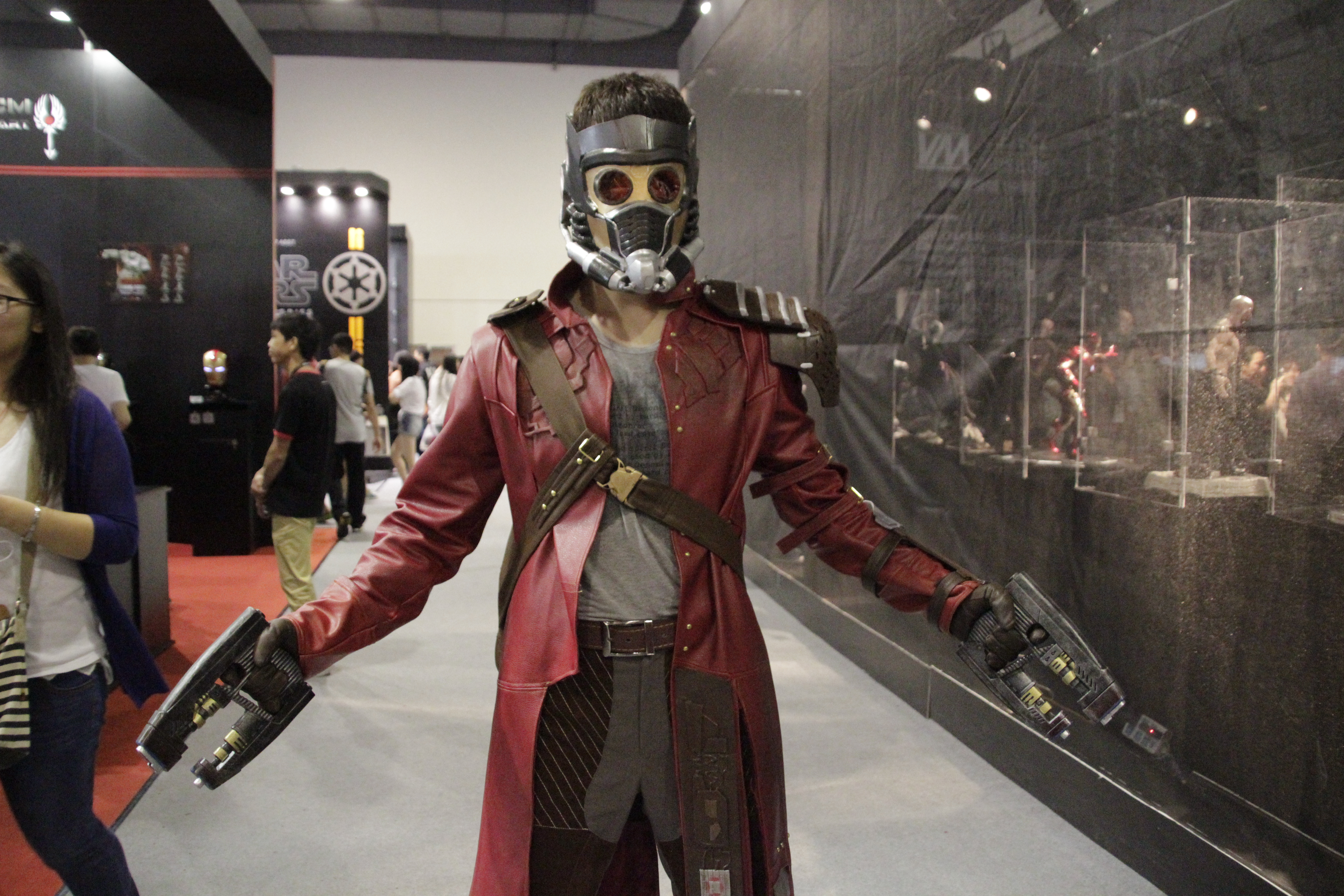 Cosplay at Shanghai Comic Con 2015.